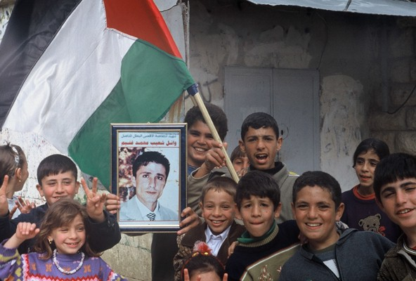 Funeral of young man shot in Al-Khader, a town West of Bethlehem, by the Israeli Army. February 2001